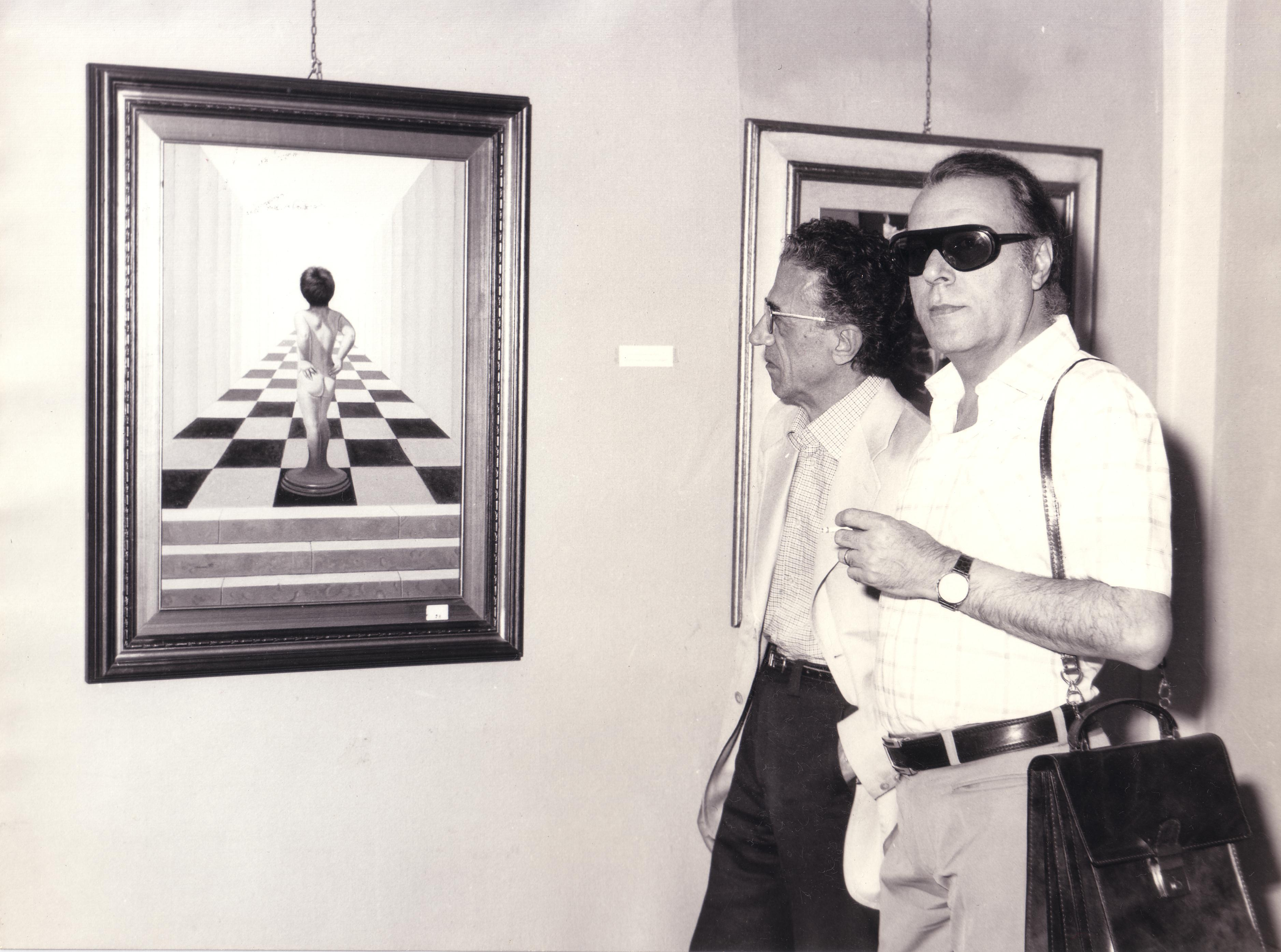 Painter William Girometti (on the right side) with writer Flavio Bertelli, about 1975 (Girometti family's photo album)